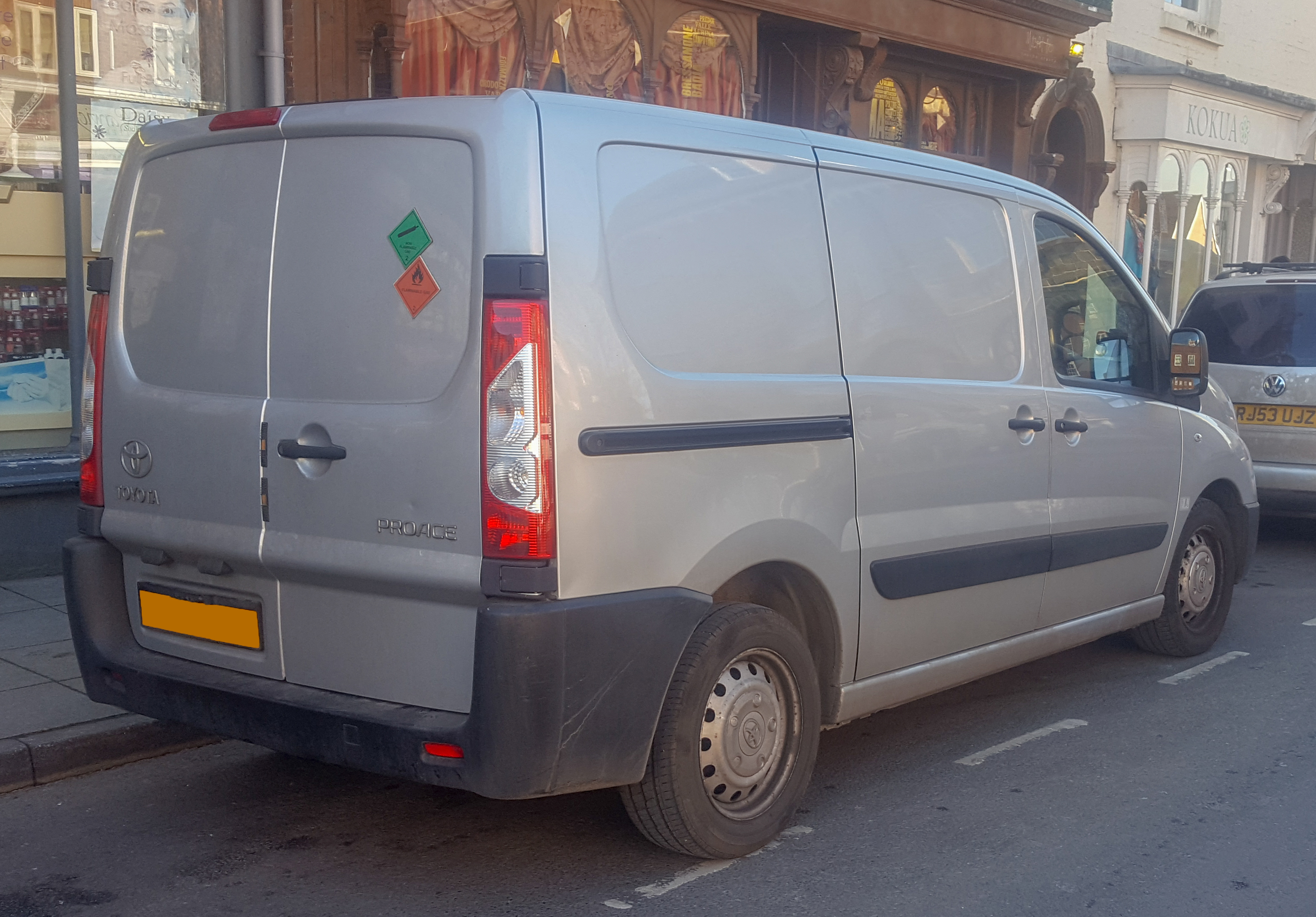 2014 Toyota Proace 1200 L1H1 HDi 2.0 Rear Taken in Warwick